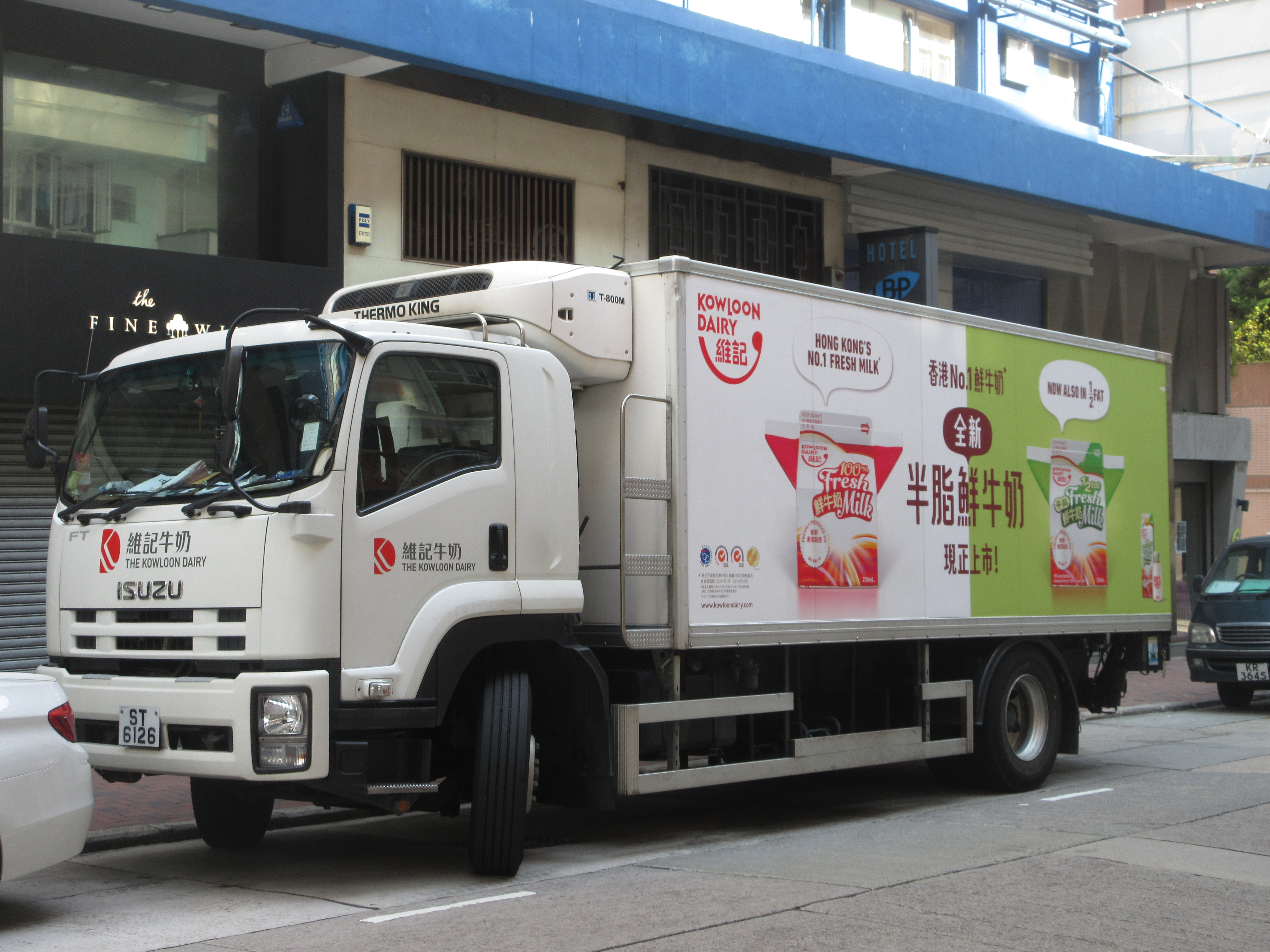 HK 上環 Sheung Wan 皇后大道西 Queen's Road West Lorry Fleet 九龍維記牛奶 The Kowloon Dairy logistics Isuzu truck Thermo King in October 2017